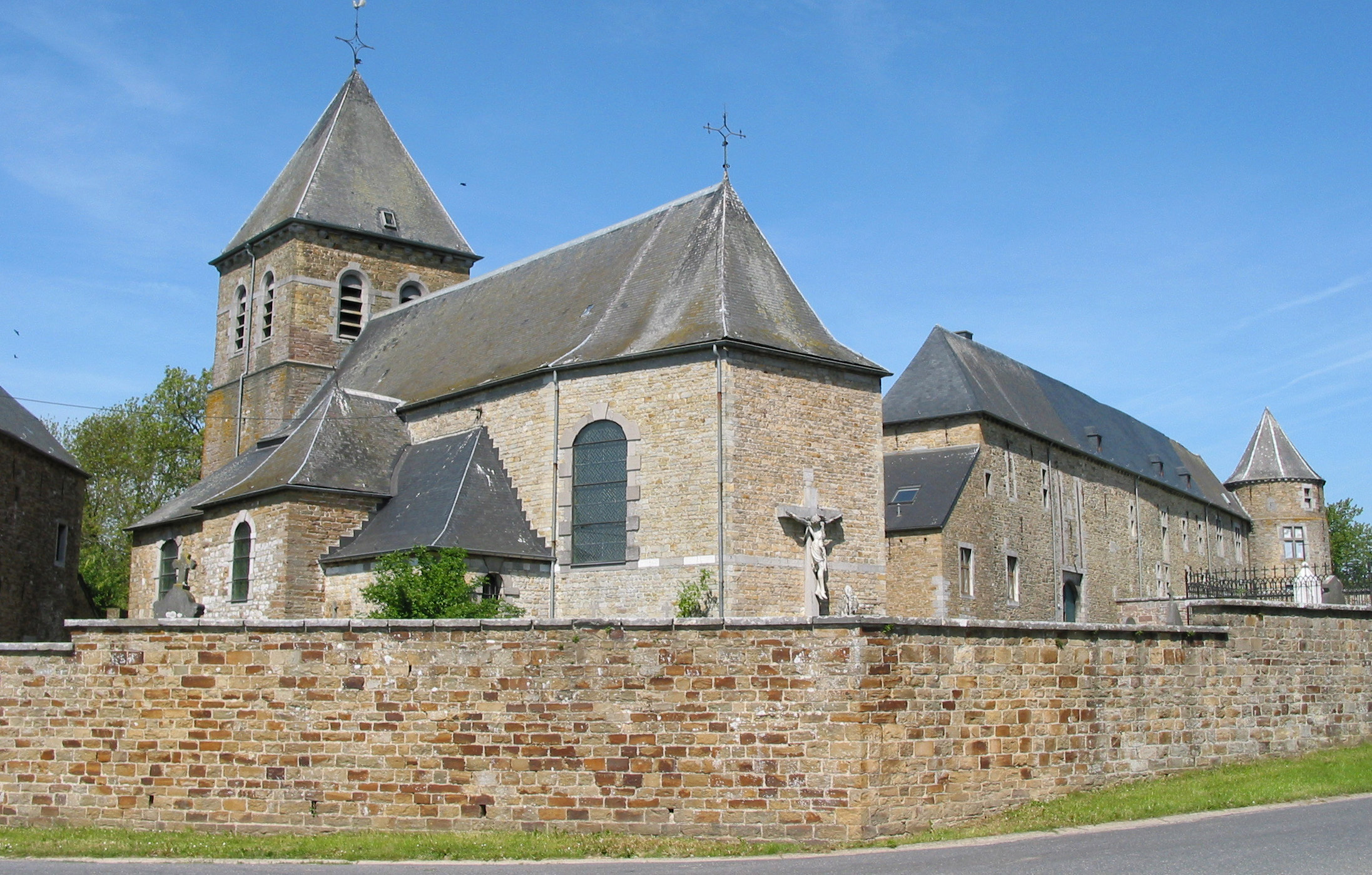 Petit-Courrière (Belgium), the Saint Quentinus' church and the castle farm (XVIIth century).